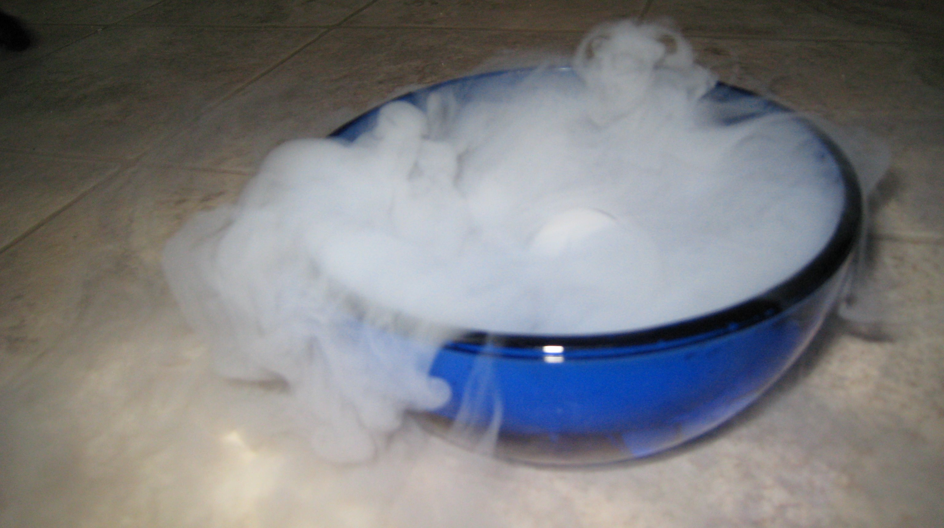 Fun with dry ice. We received a package today that was packed with some dry ice. Oh, instant fun.